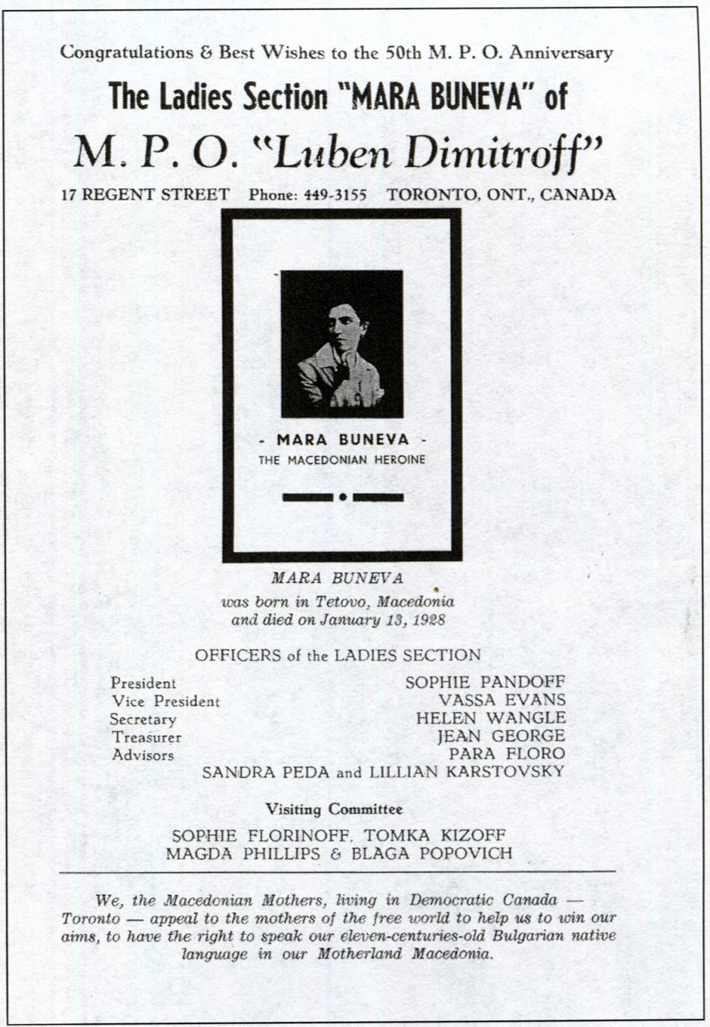 list informing for the death of Mara Buneva from MPO